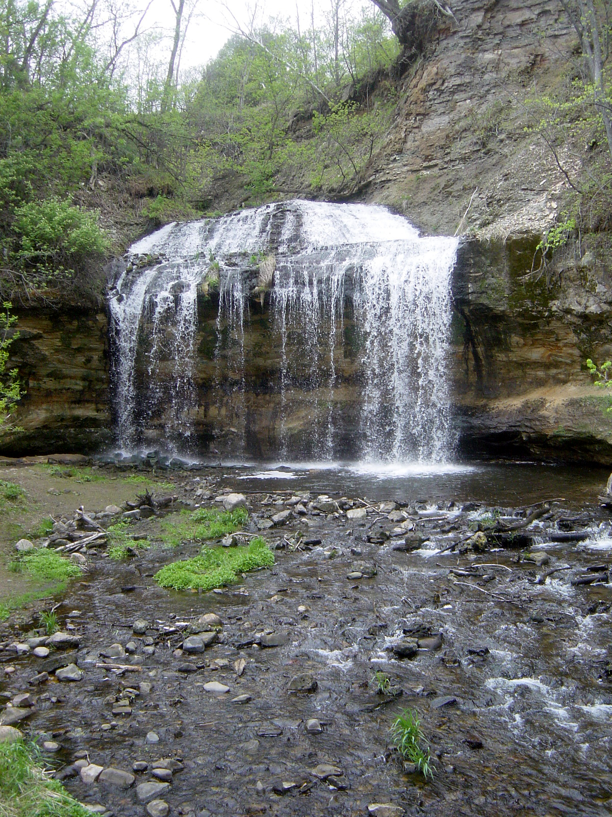 Cascade Falls, located right in downtown Osceola, Wisconsin on the Osceola Creek; it is 25 feet tall and 30 feet wide